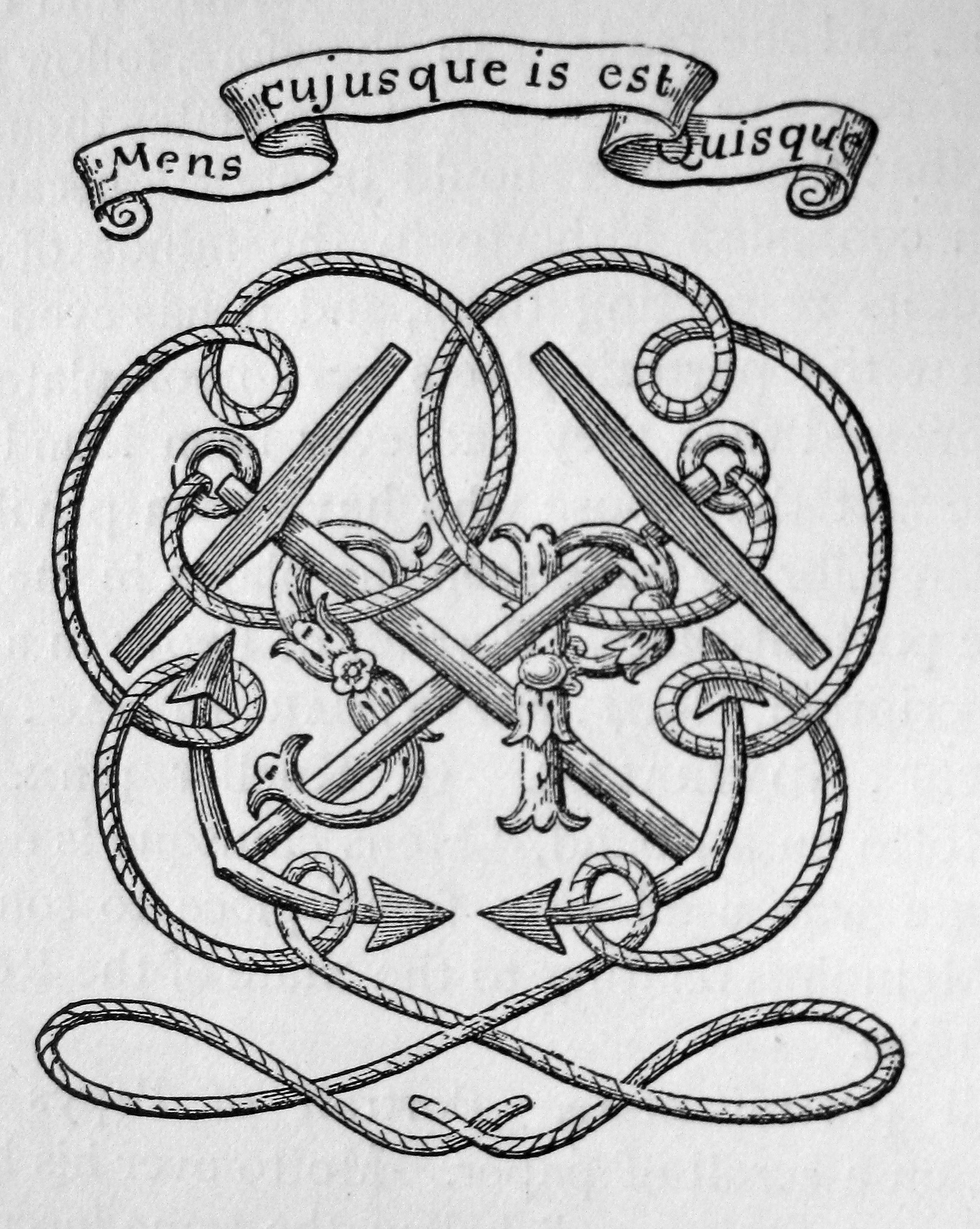 Image is from H.B. Wheatley, ed, The Diary of Samuel Pepys: Pepysiana (London, 1899). Book editor died in 1917. Samuel Pepys died in 1703.